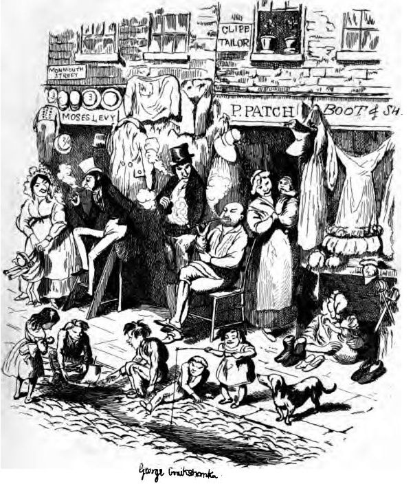 George Cruikshank – "Sketches by Boz" , Monmouth Street